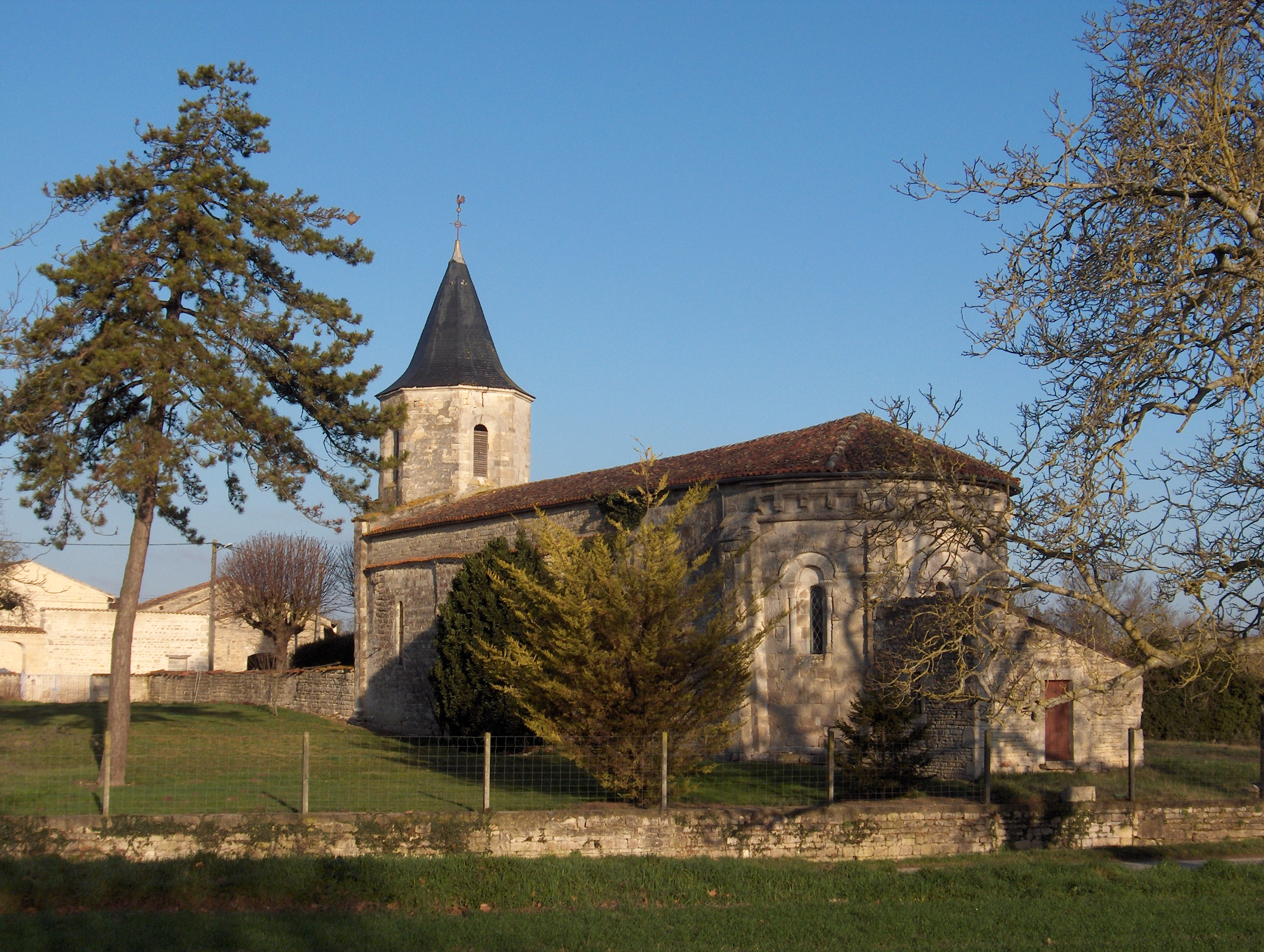 Church of Souvigné - Charente - France - Europa